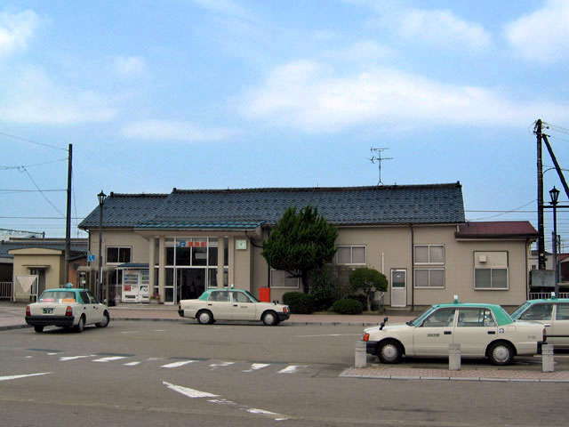 Awazu Station on the JR West Hokuriku Main Line, in the city of Komatsu, Ishikawa Prefecture, Japan